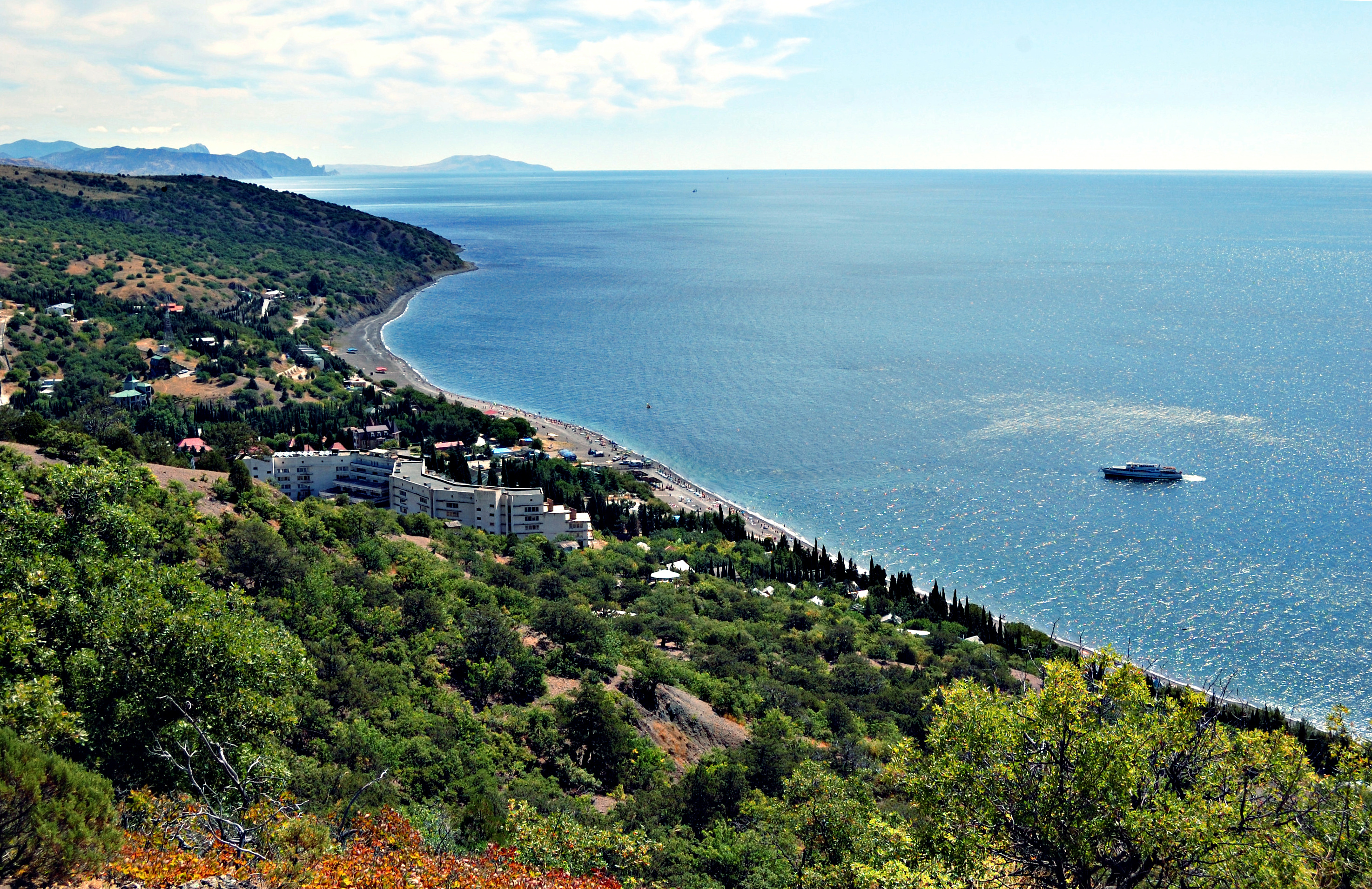 Kanaka. Crimea. Ukraine. Black sea.